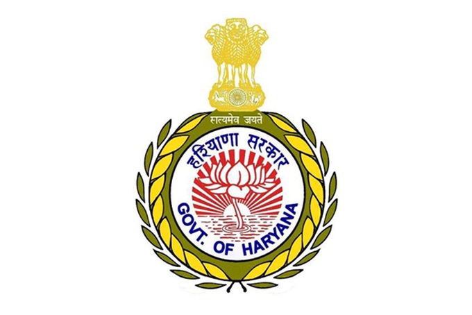 Haryana Flag